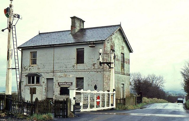 Dunloy station Dunloy station opened in 1856 and closed in 1976. At the time of the photograph there was still a level crossing keeper to open the gates – now replaced by automatic barriers.